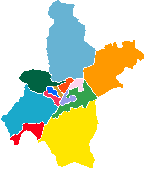 Subdivision of Wuhan